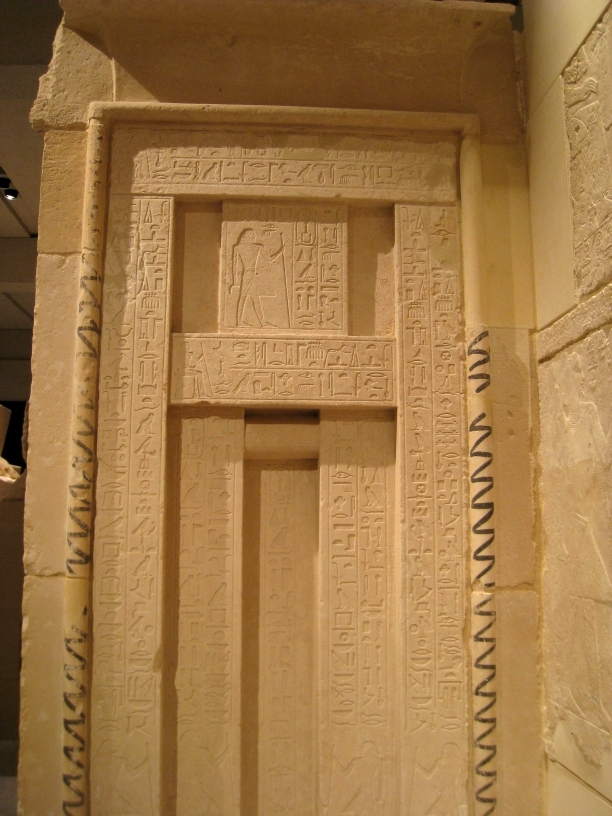 False door from the mastaba of Manefer. Time of Djedkare Isesi - 5th dynasty of Egypt - Egyptian museum of Berlin